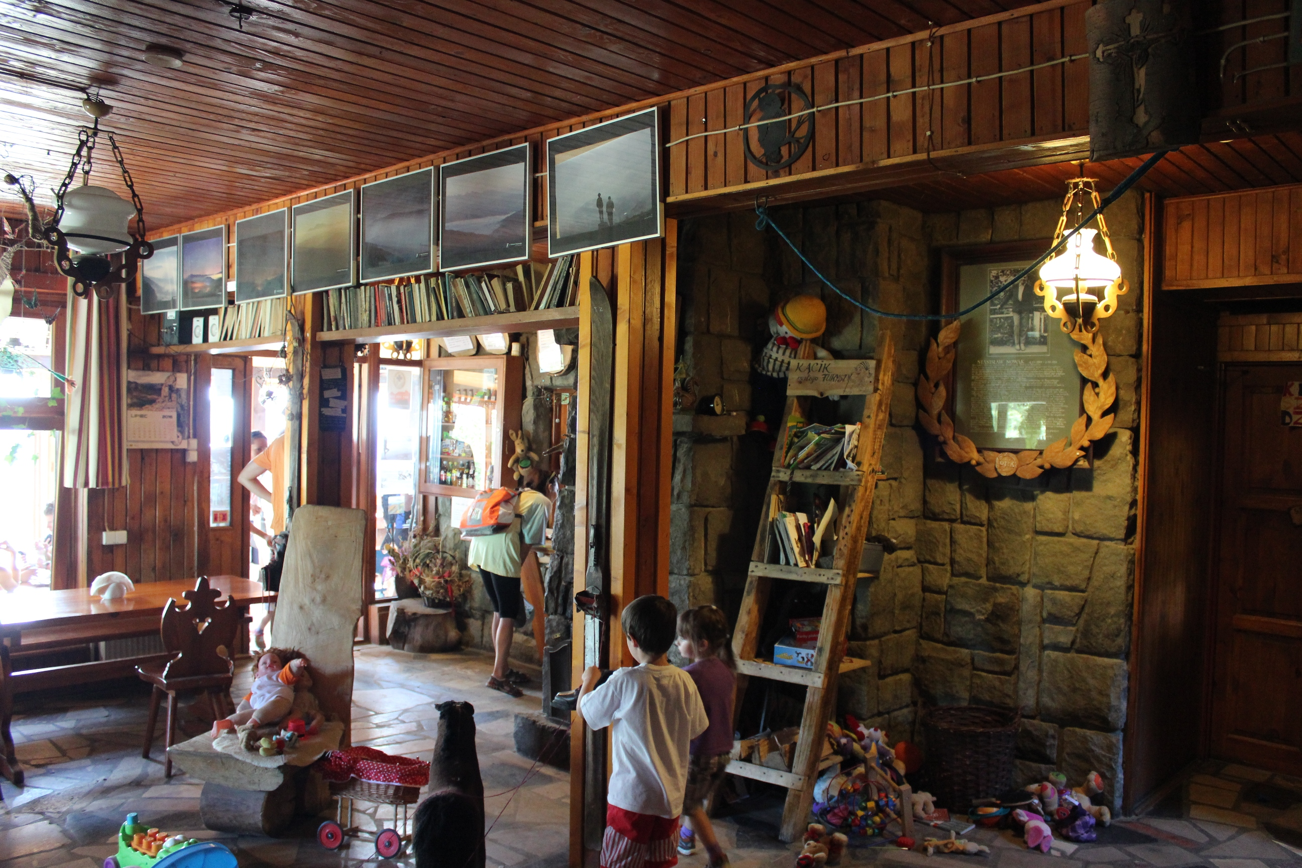 Nad Wierchomlą mountain hut